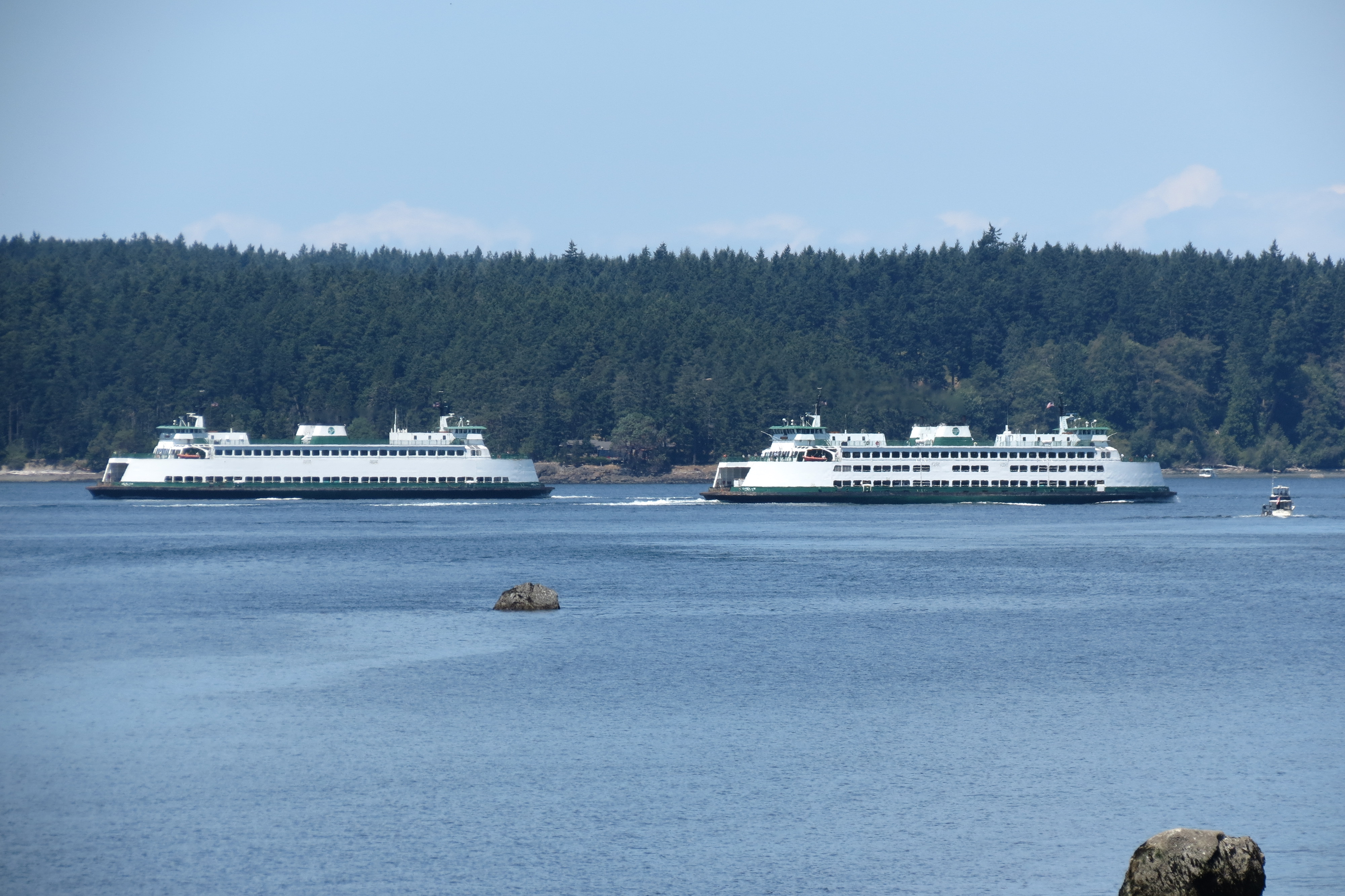 The ferries MV Chelan and MV Sealth pass each other south of Shaw Island. Photo taken from Lopez Village on Lopez Is.